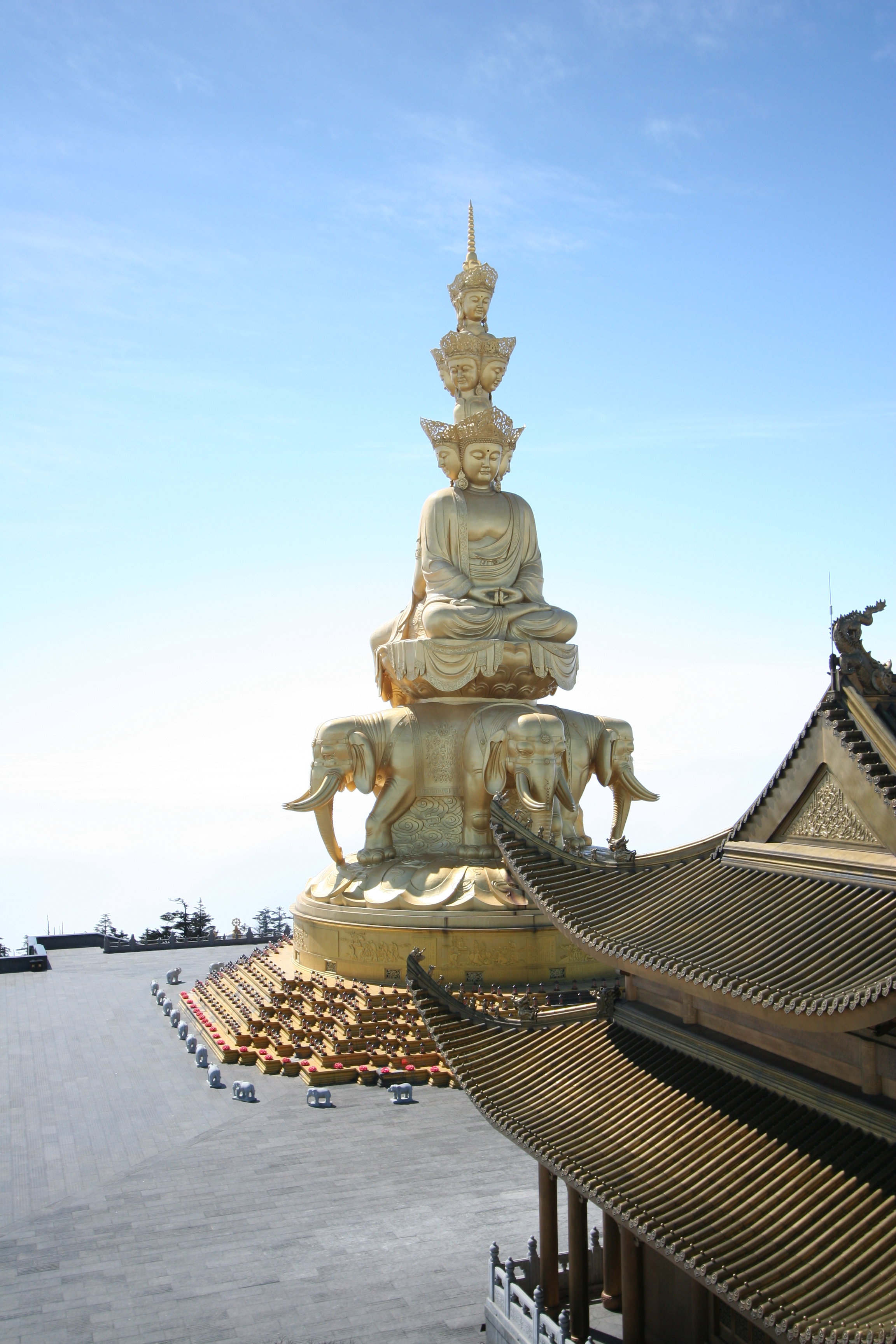 Samanta Bhadra in Mount Er Mei.